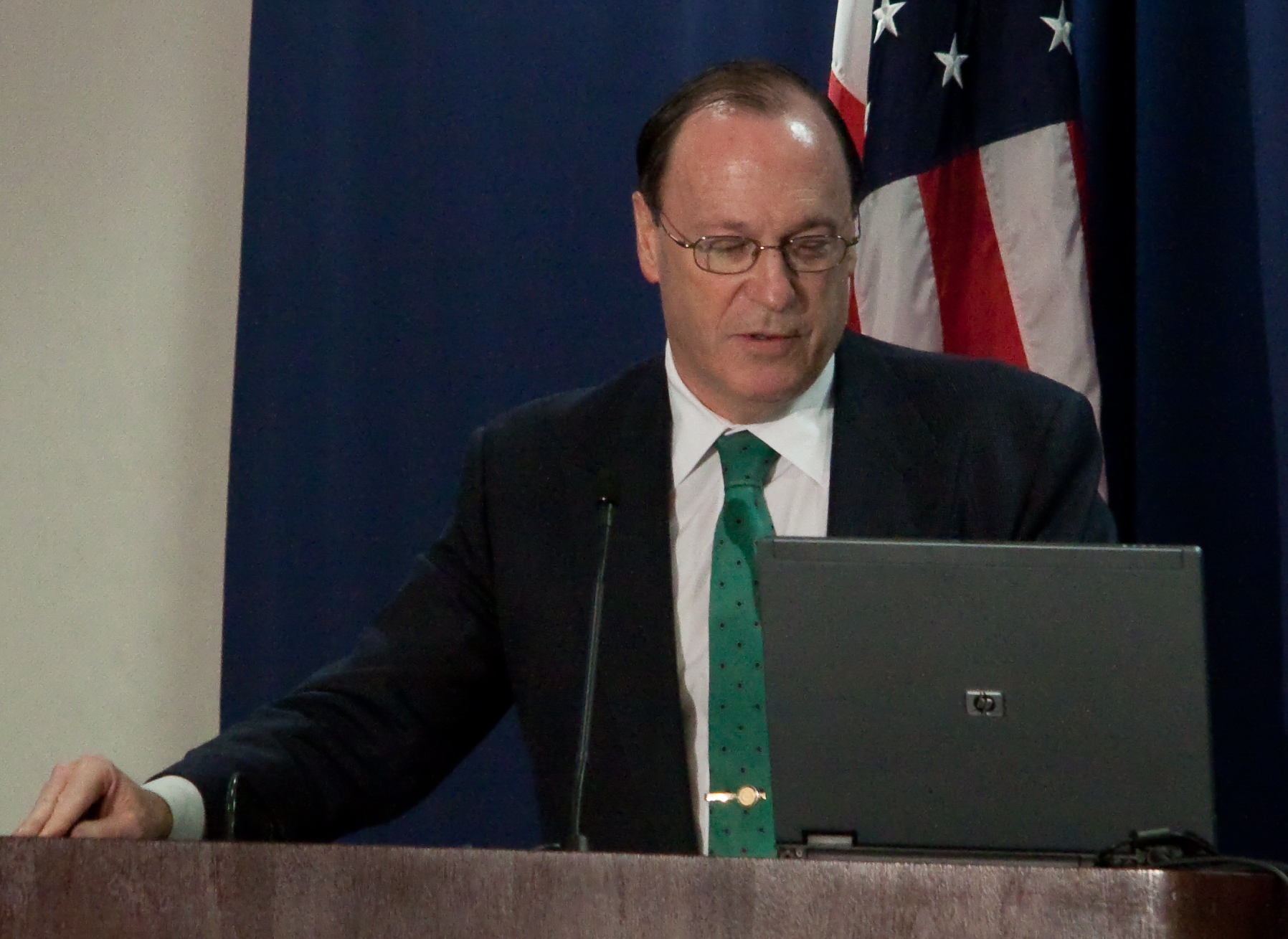 Steven Brill (born August 22, 1950) is an American lawyer and journalist-entrepreneur. Brill's most recent reporting and book is concerned with healthcare costs.